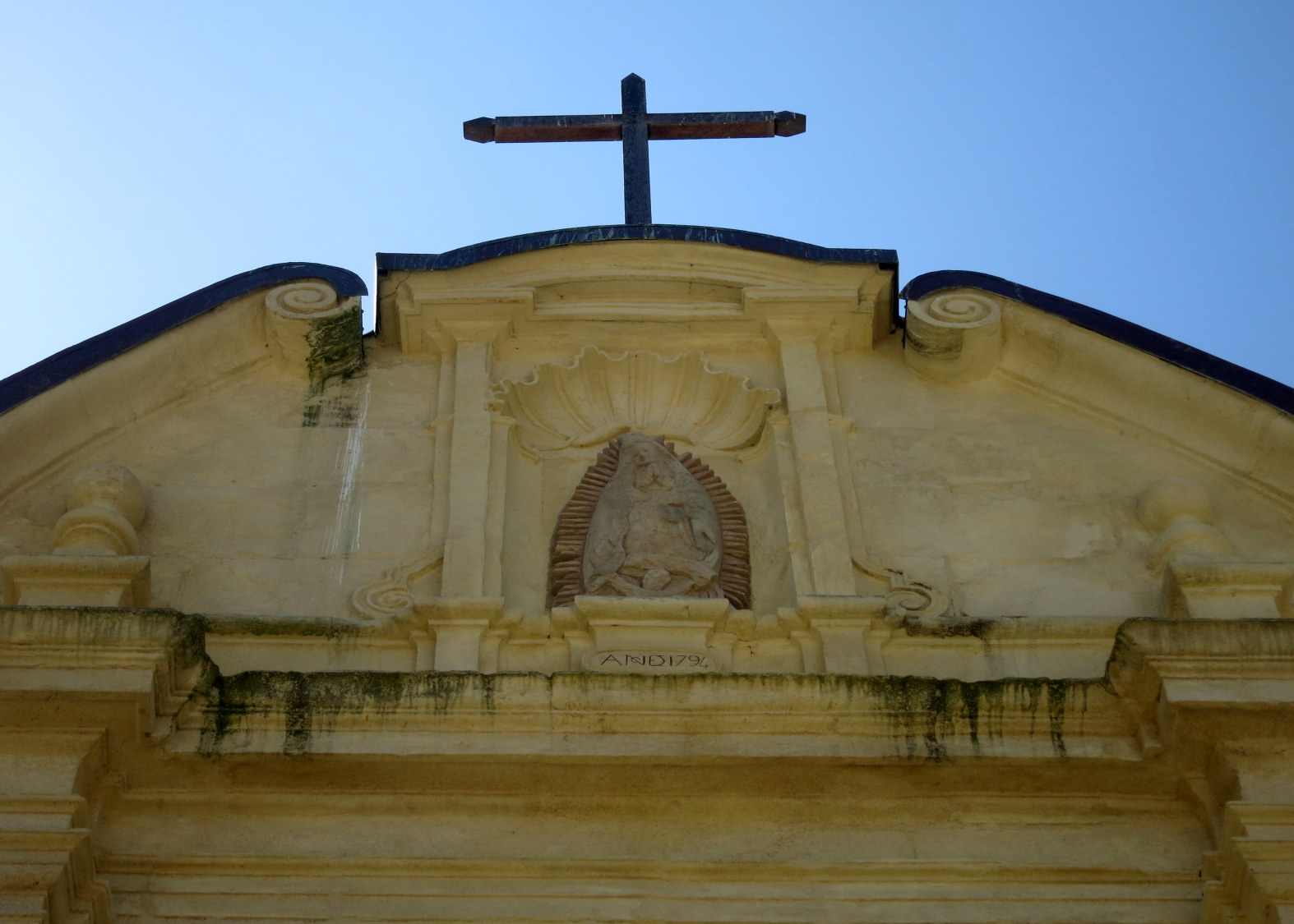 San Carlos Borromeo Cathedral (Monterey, CA) - exterior, Our Lady of Guadalupe